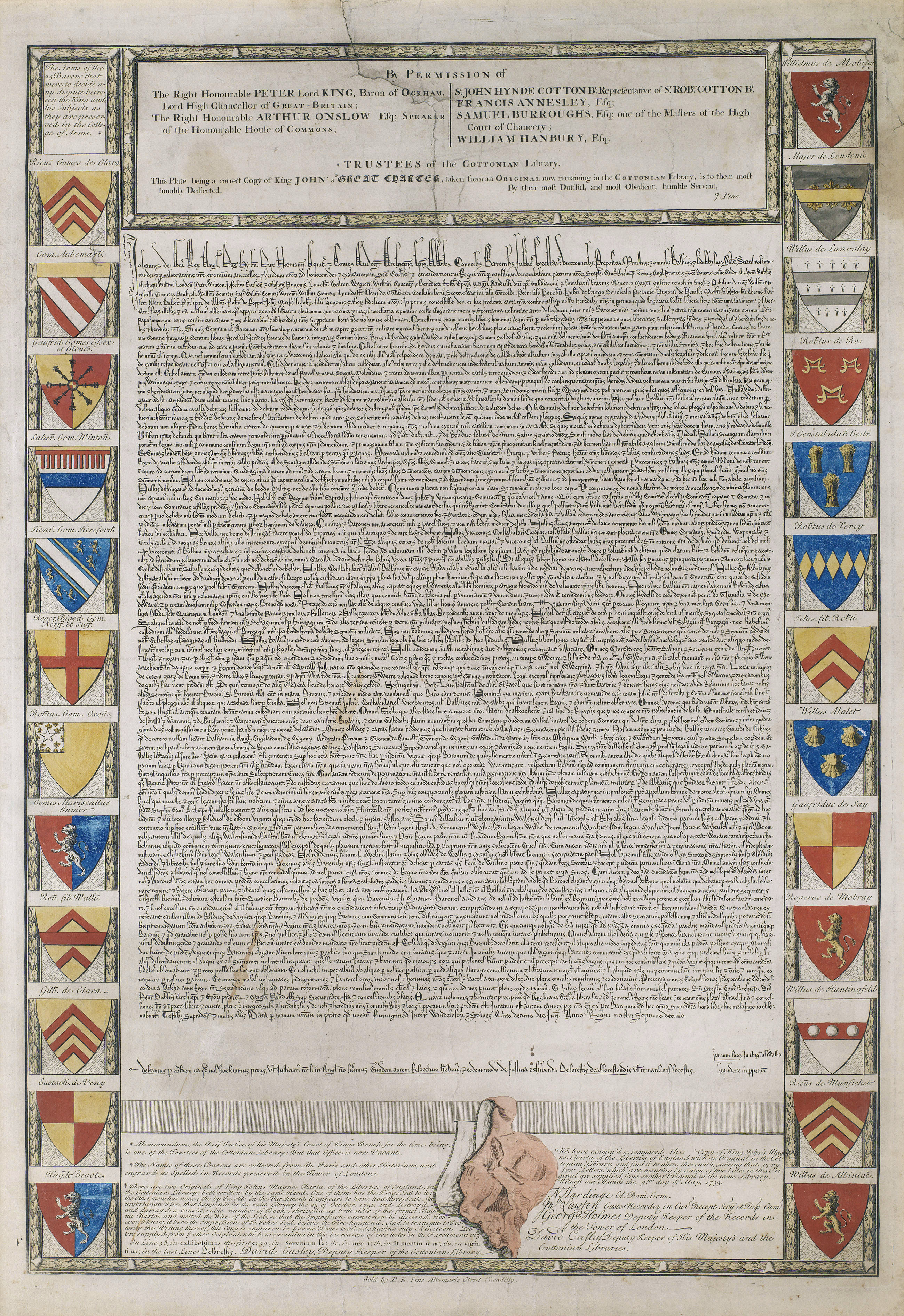 Engraved facsimile of the original text of the Magna Carta, surrounded by a series of 25 coats of hand-coloured arms of the Barons, panel at foot containing notes and a represenation (hand-coloured) of the remains of King John's Great Seal, all panels surrounded by oak leaf and acorn borders.